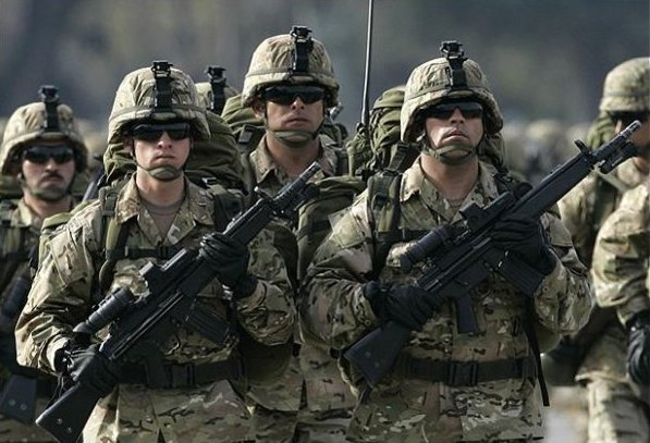 Chilean soldiers wearing Multicam uniforms.